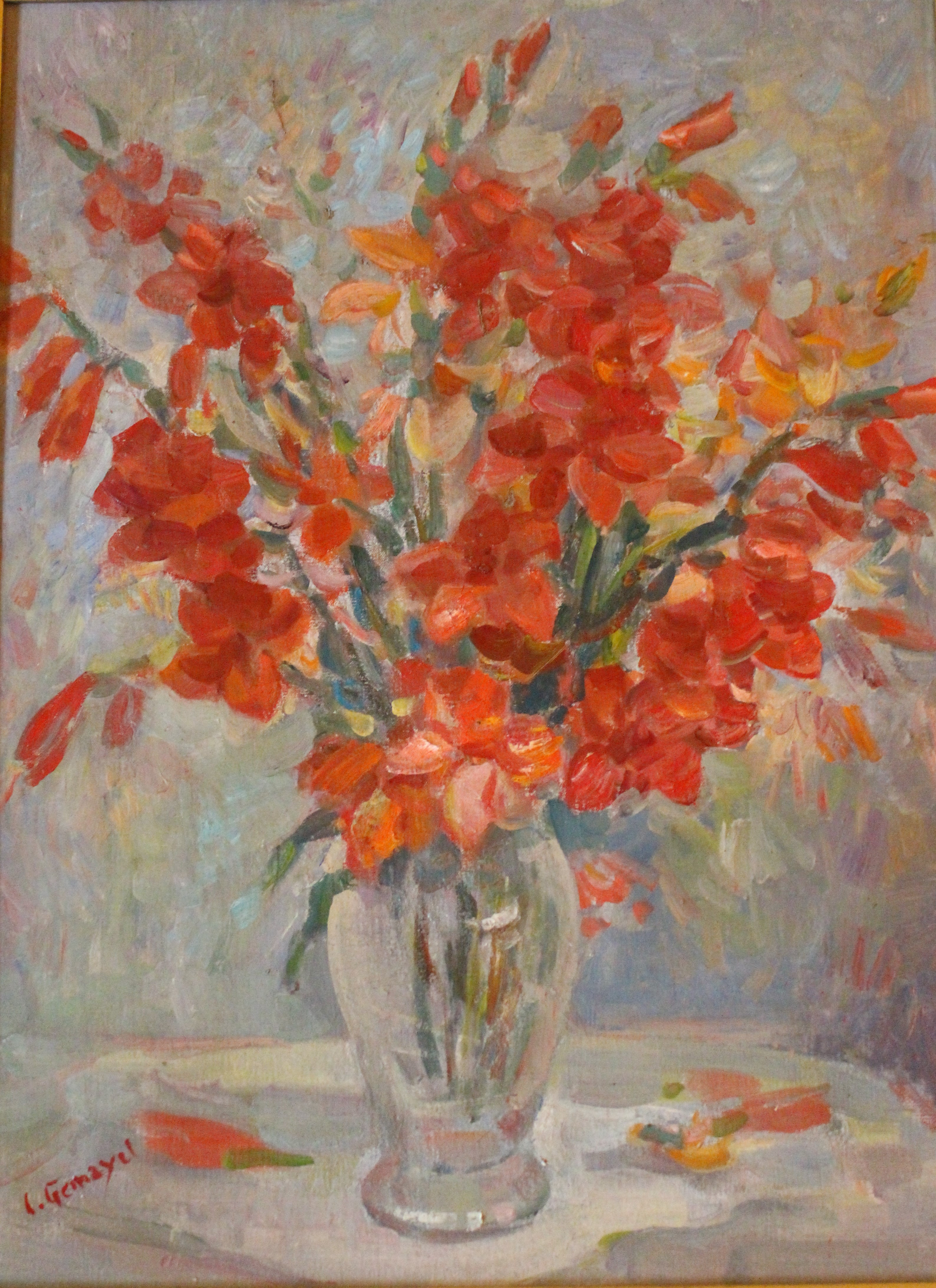 Galdioli